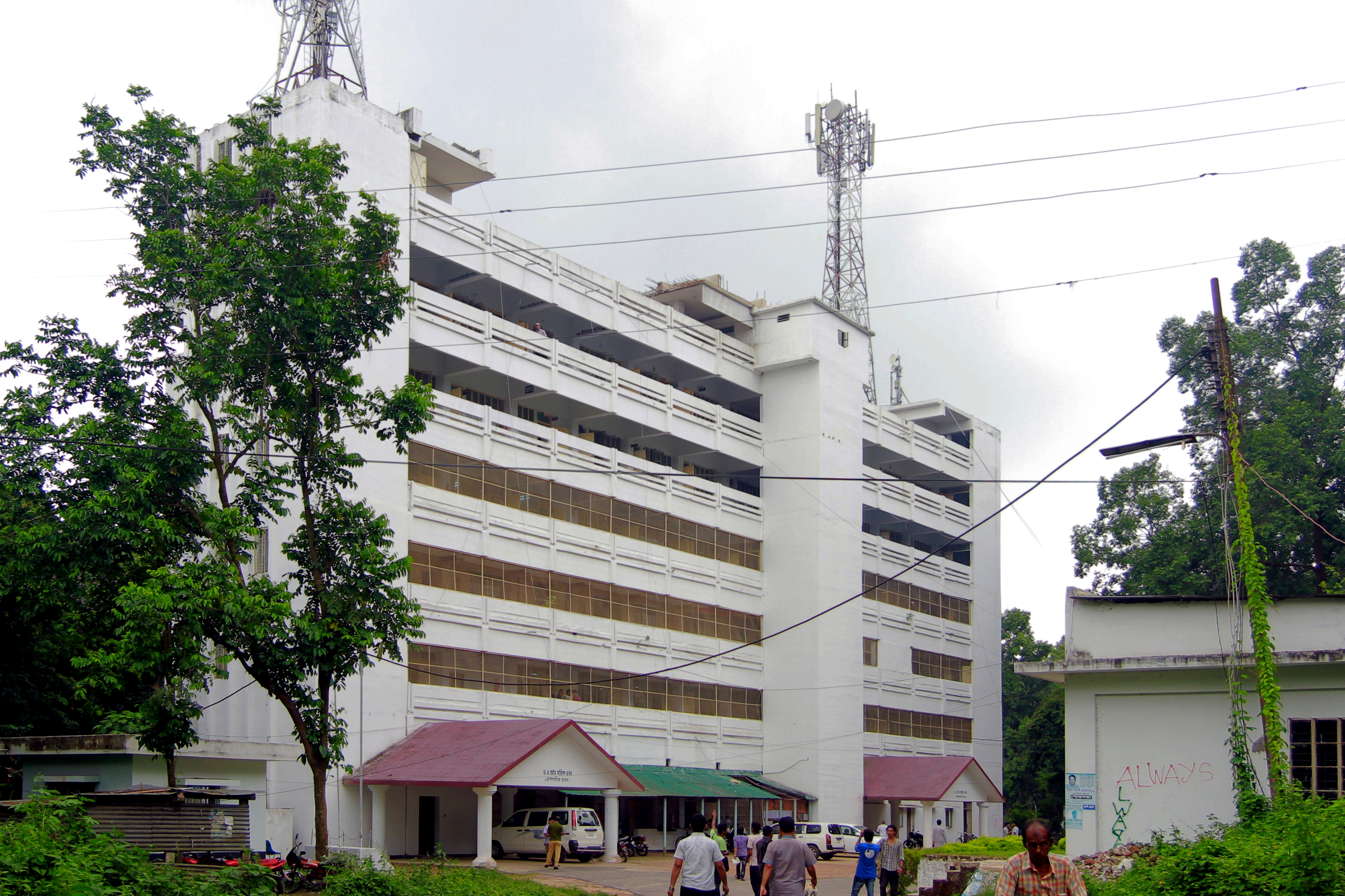 Administrative building at University of Chittagong